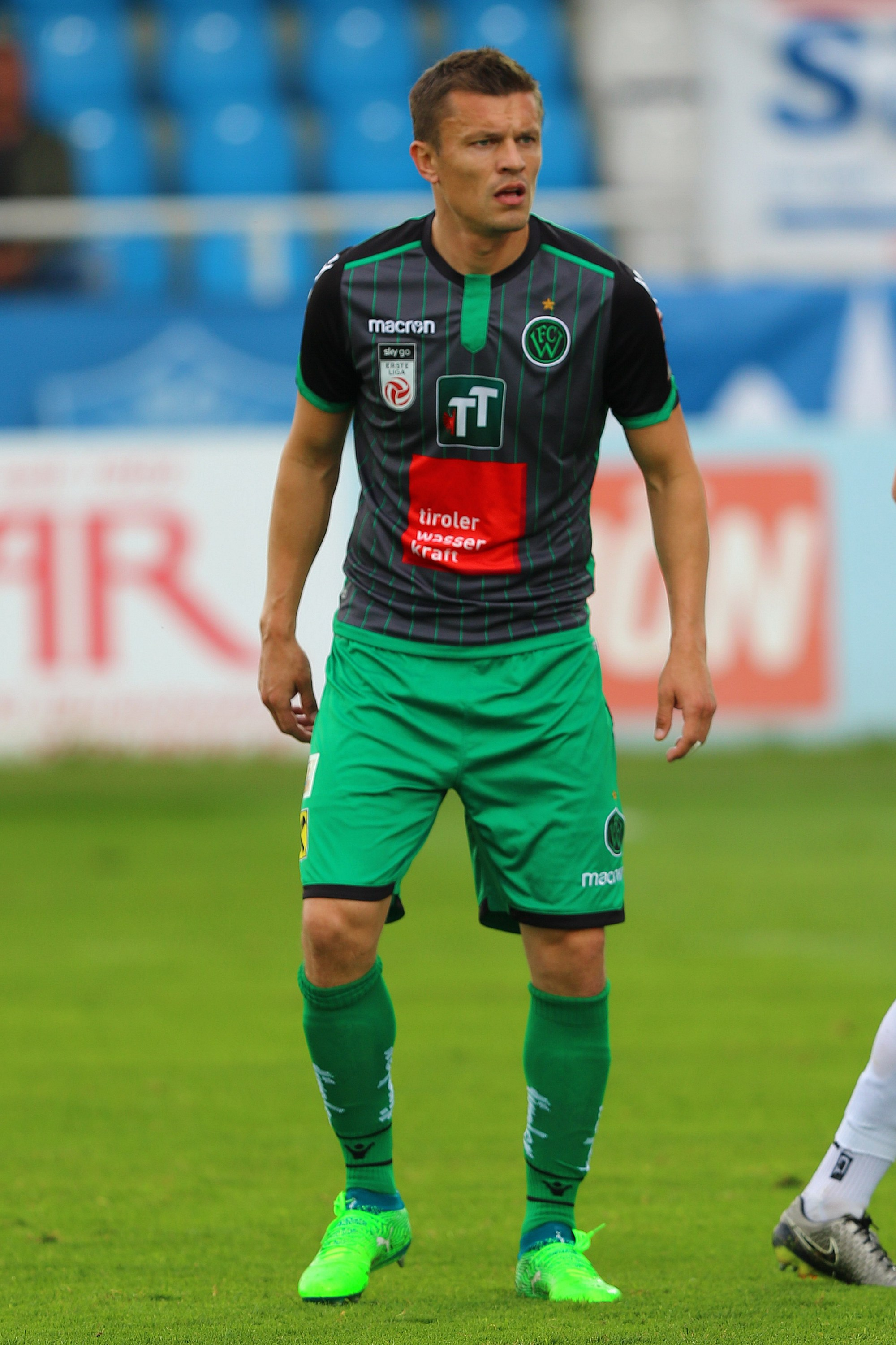 Football-championship Erste Liga 2017–18 - SC Wiener Neustadt (white shirts) vs. FC Wacker Innsbruck (black-green shirts) 1-0. – The photo shows Zlatko Dedic.